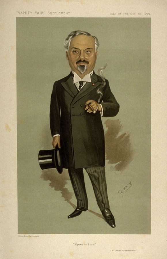 Men of the Day No.1305: Caricature of O Hammerstein. Caption reads: "Opera de Luxe"